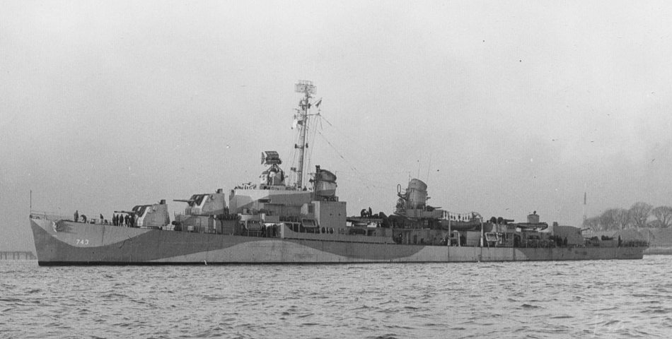 The U.S. Navy destroyer USS Southerland (DD-743) off the Boston Navy Yard, Massachusetts (USA), on 6 January 1945. She is painted in Camouflage Measure 33A, Design 28D.